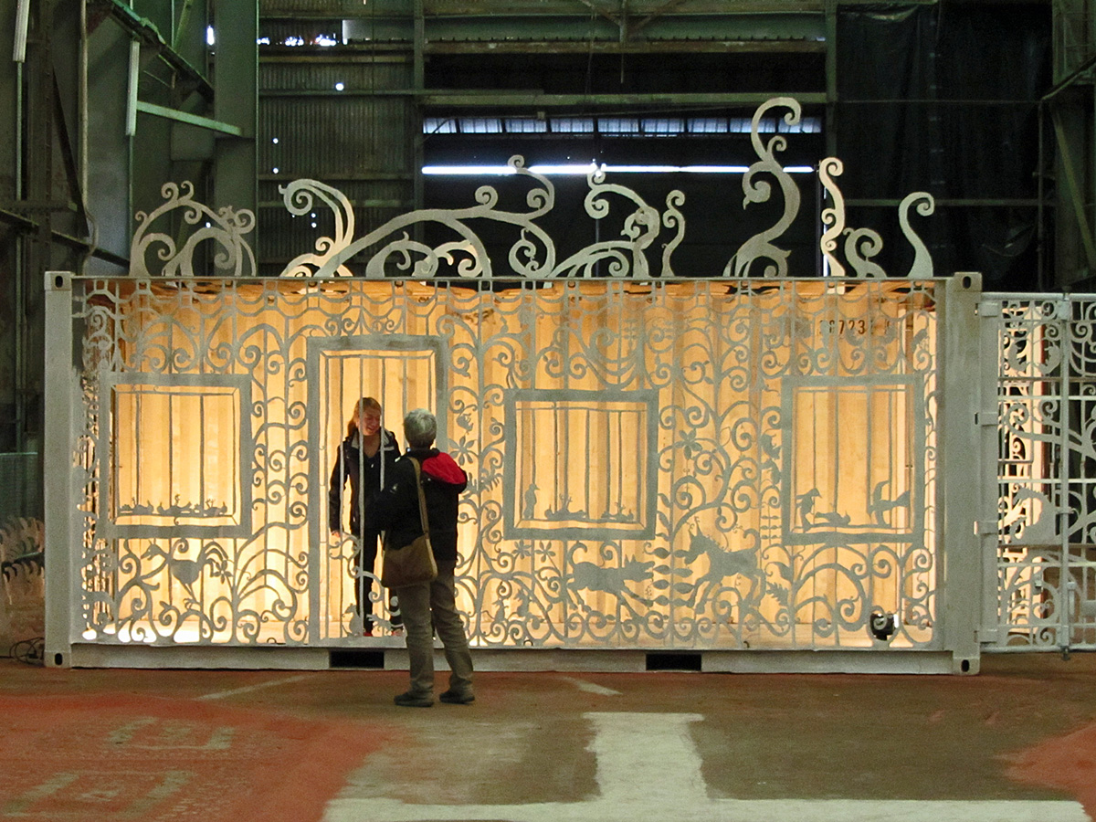 The sculpture "Domesticated Turf," by Canadian artist Cal Lane.